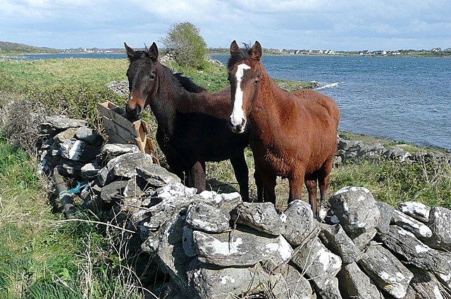 Ballynamanagh West A small part of the square runs down to Dunbulcaun Bay. These horses seemed to have a particularly small paddock.